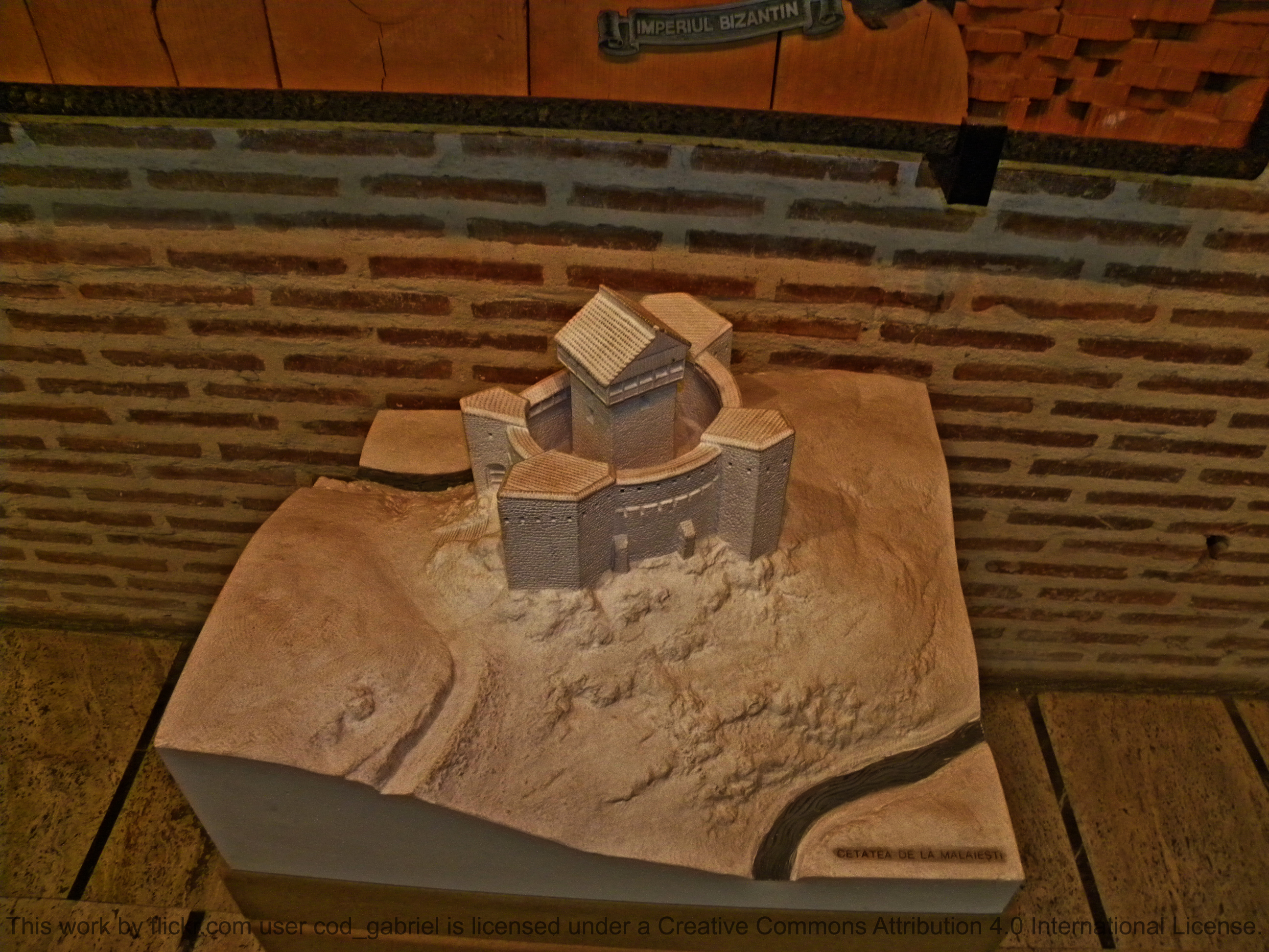 maquette of the Mălăiești fortress in the National Military Museum, Bucharest